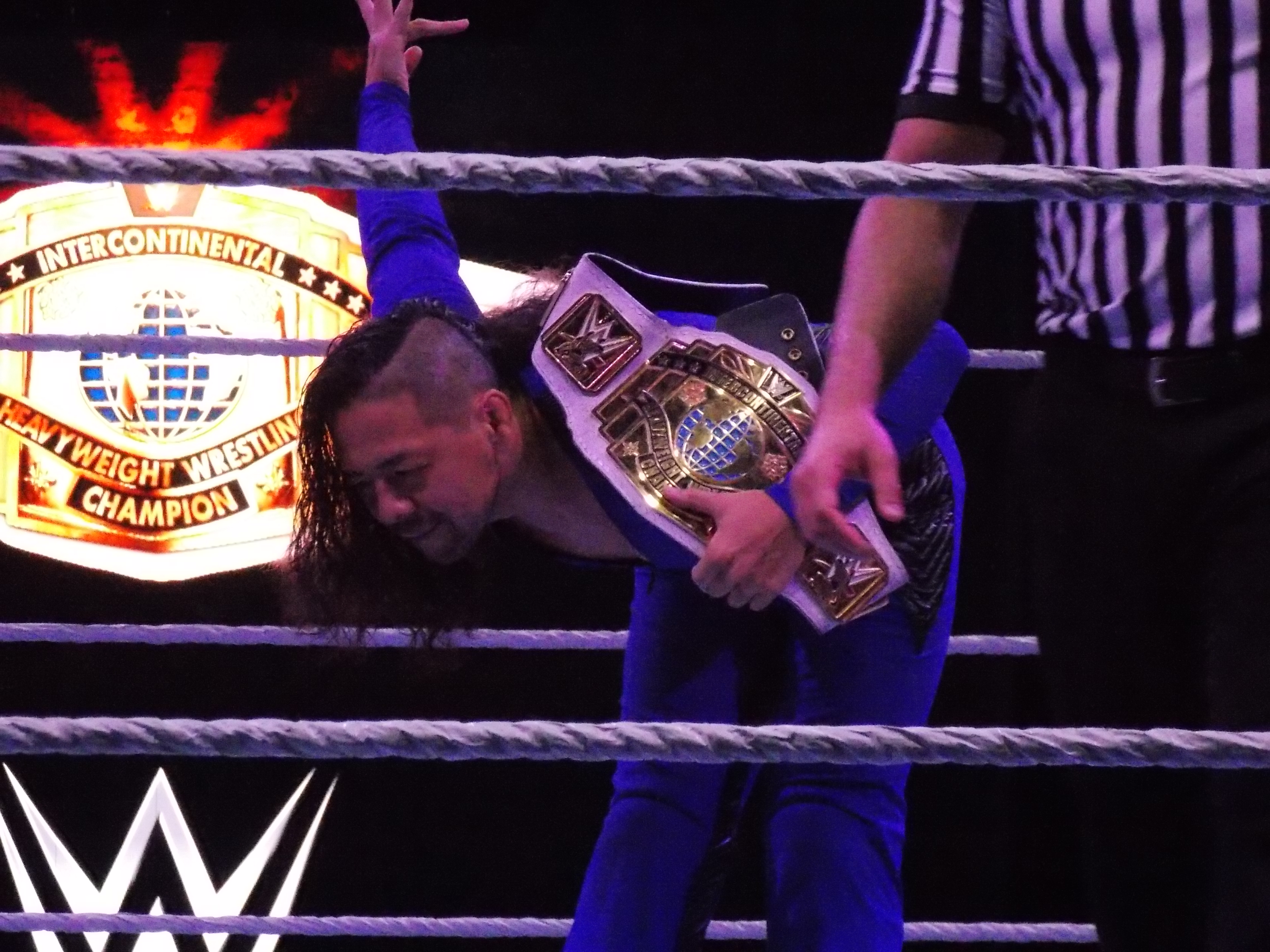 WWE Intercontinental Champion Shinsuke Nakamura at a WWE Live Event House Show in Omaha, Nebraska, USA on Sunday, August 18, 2019